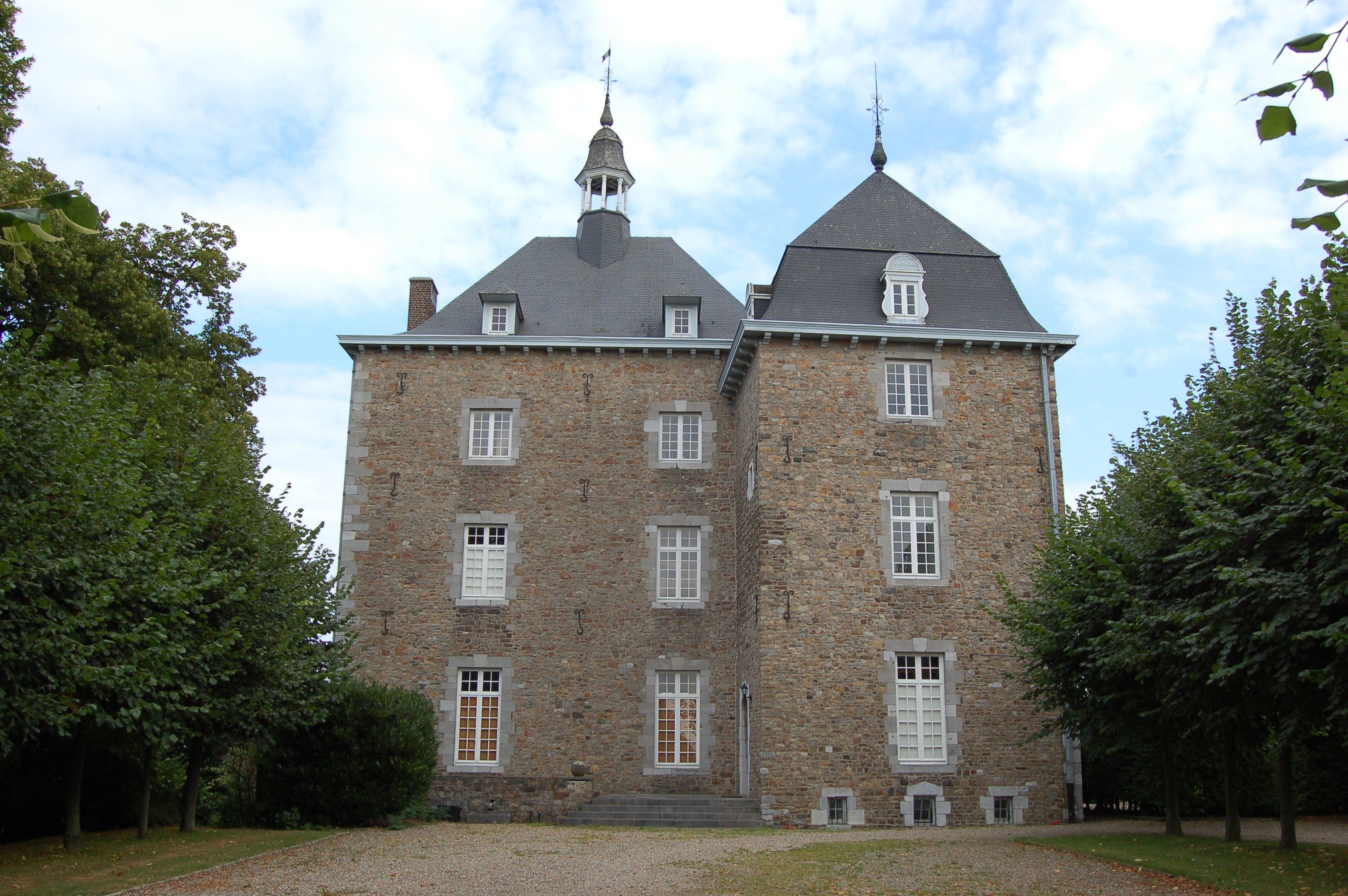 West face of the Wodémont Château